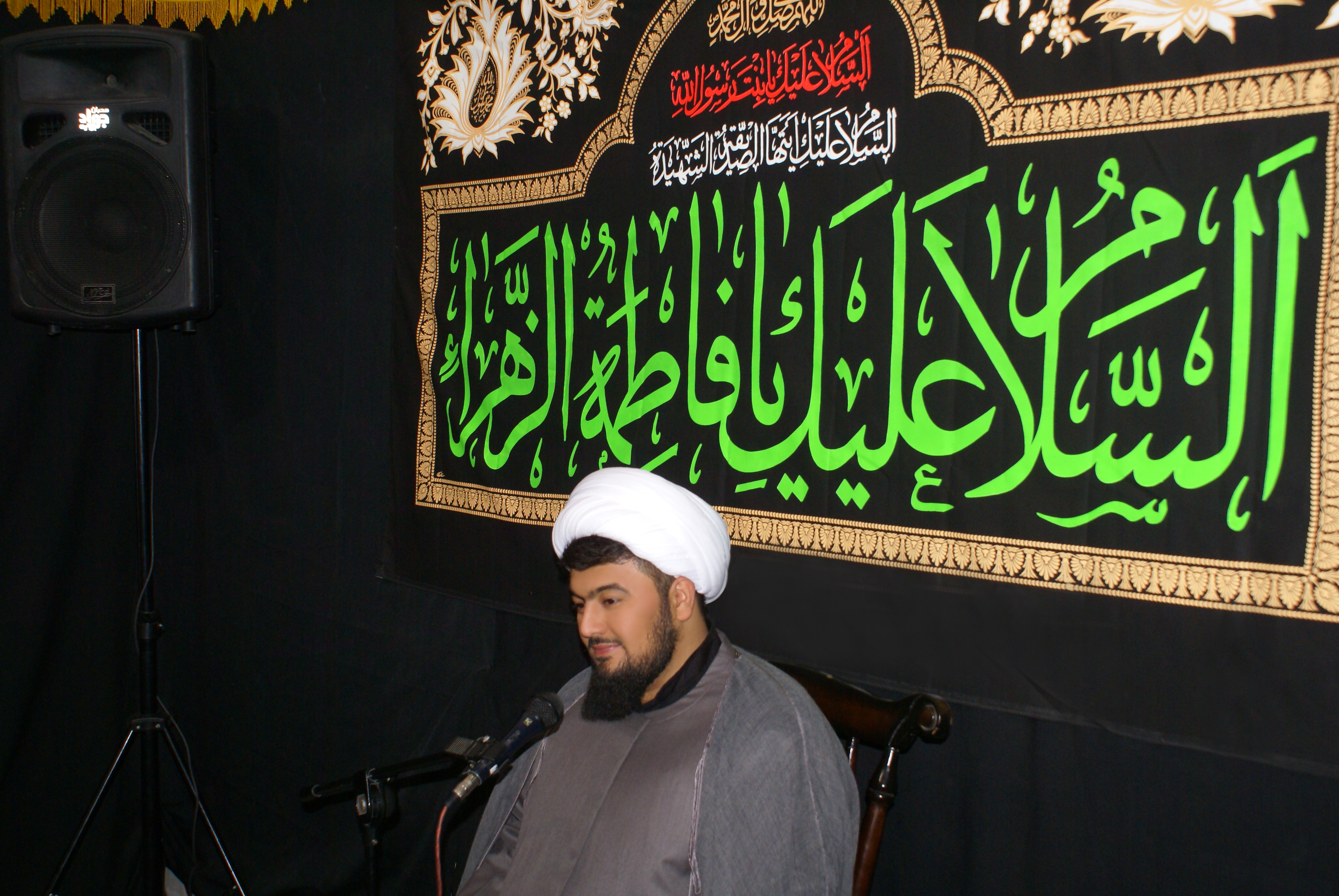 Hjh aslam